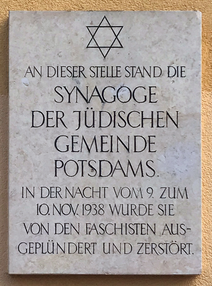 Memorial plaque, Alte Synagoge, Platz der Einheit 1, Potsdam, Deutschland